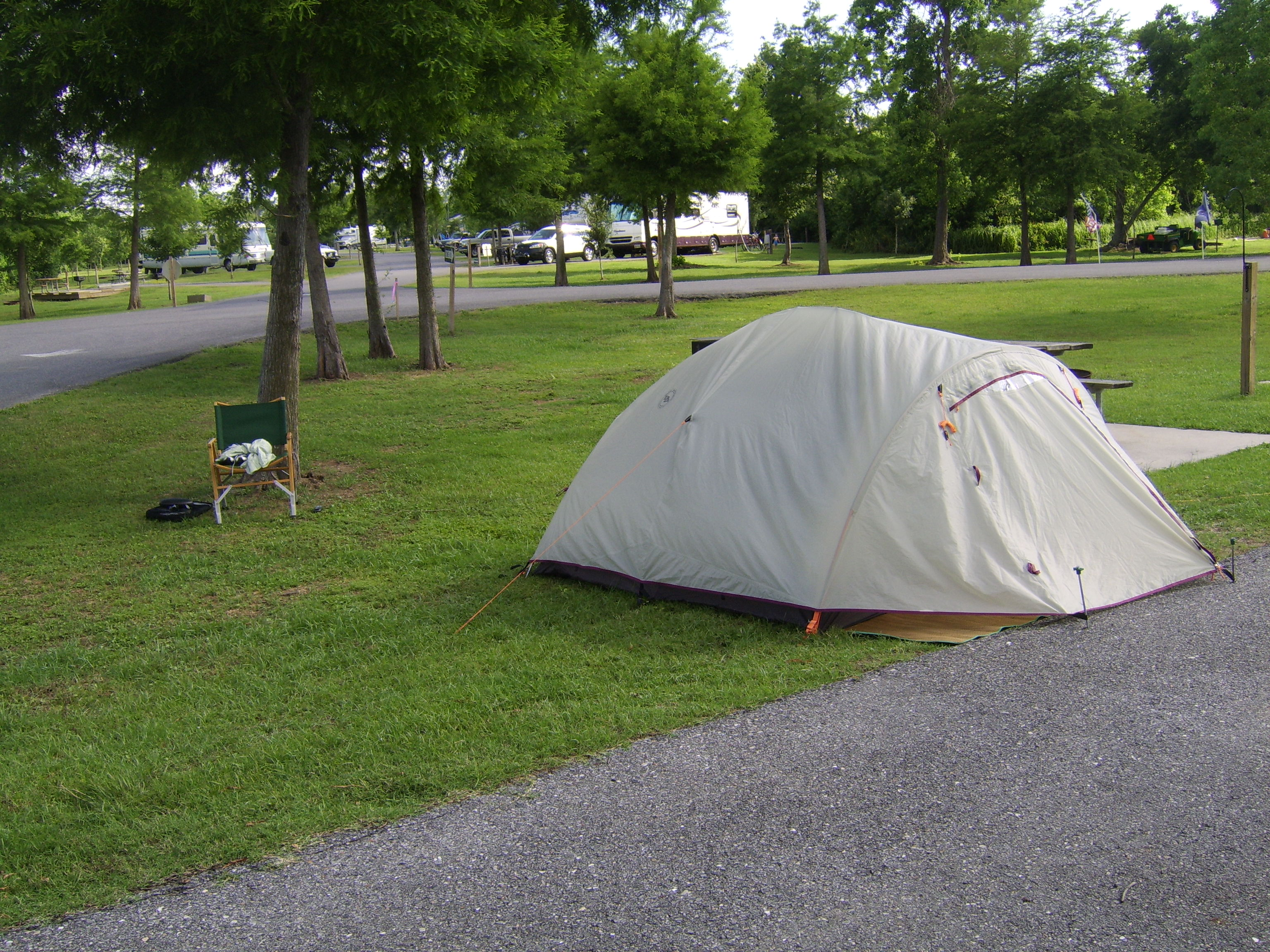 Inside Bayou Segnette State Park in Westwego, Louisiana.